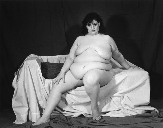 black and white photograph